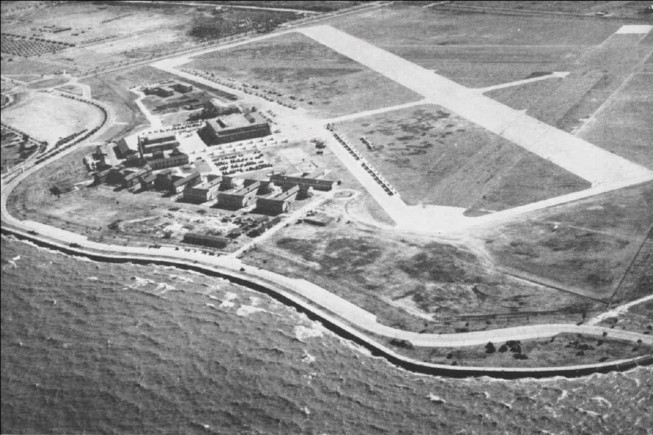 Aerial view of the U.S. Naval Air Station New Orleans, Louisiana (USA), in the 1940s.